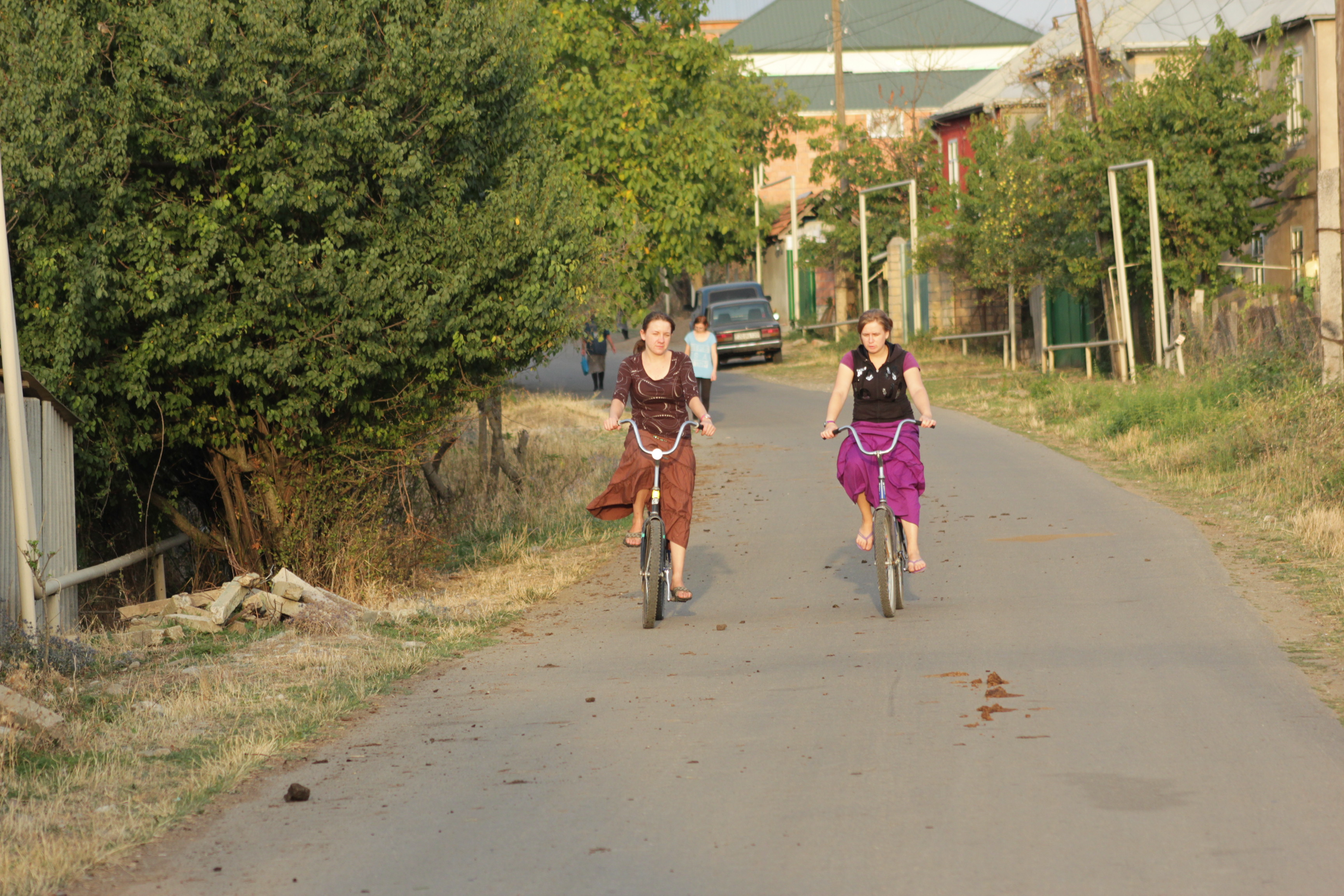 Молоканские девушки на велосипеде